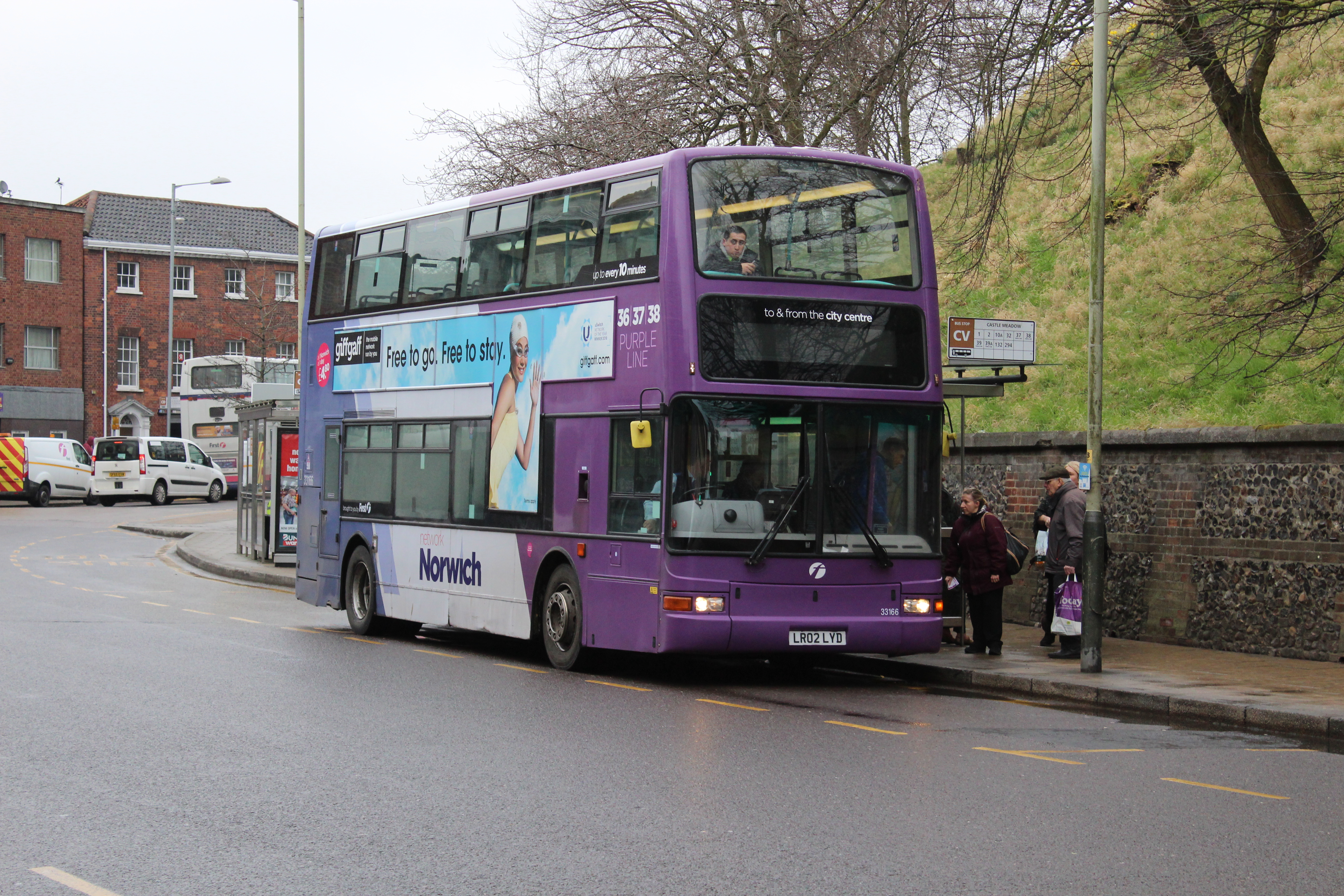 A Dennis Trident/Plaxton President carrying Network Norwich Purple Line branding in Norwich, Norfolk